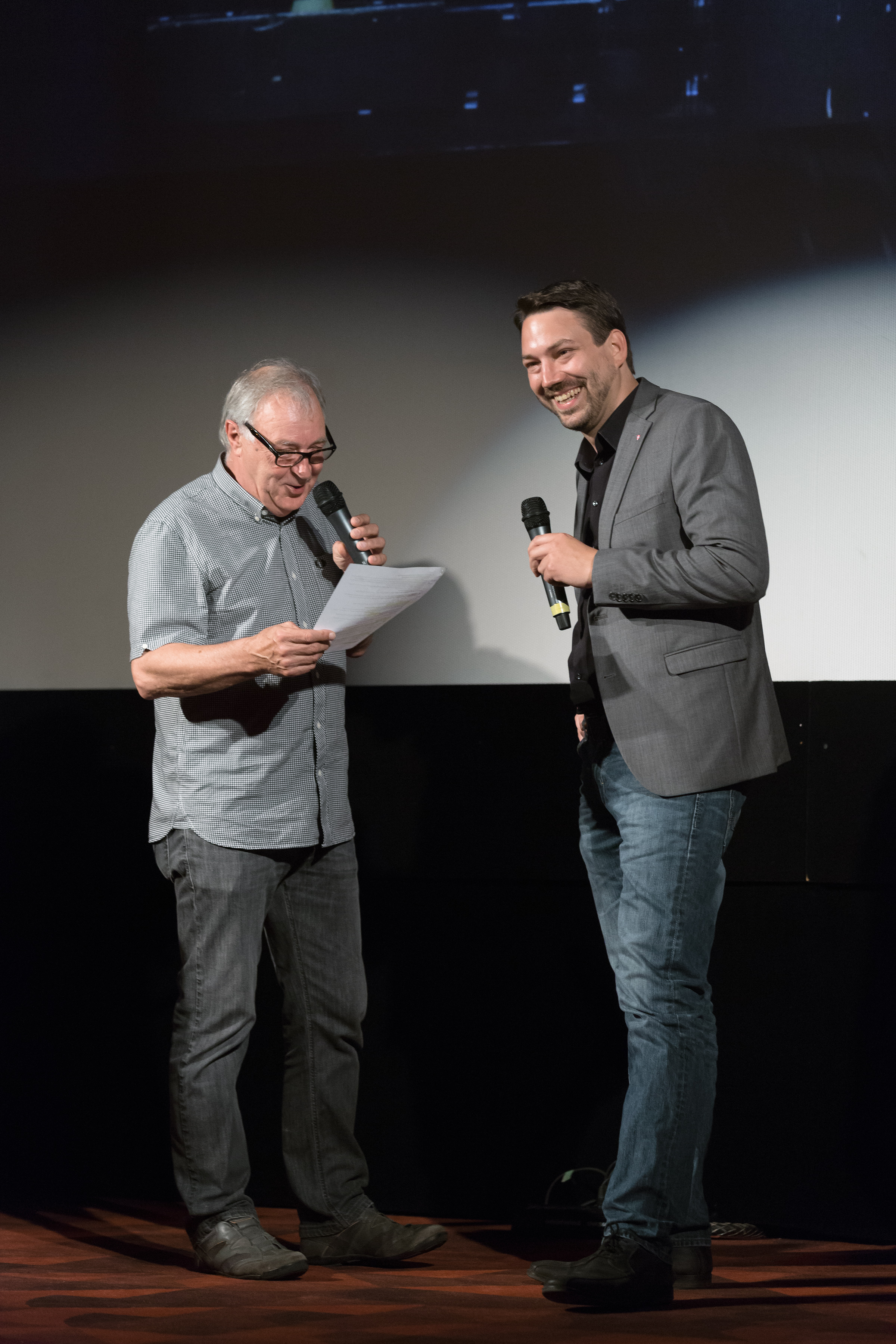 Jörg Neumayer and presenter Stuart Freeman at the award ceremony of the Vienna Independent Shorts 2016 (Metro-Kino, Vienna, Austria).